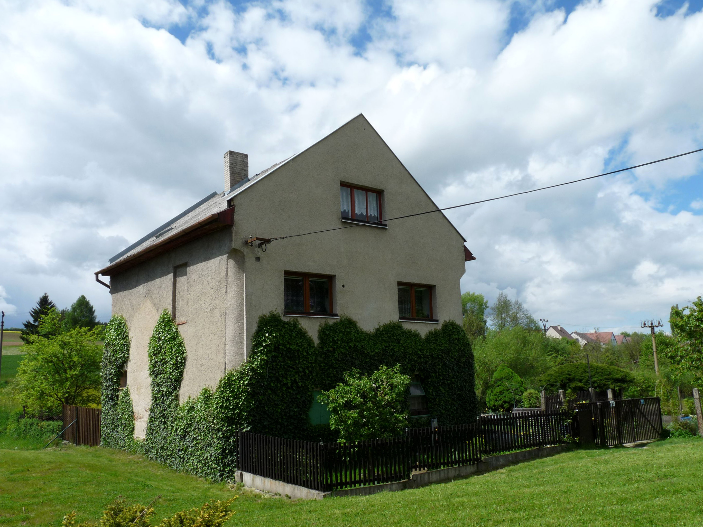 Former synagogue in the town of Úsobí, Havlíčkův Brod District, Vysočina Region, Czech Republic.